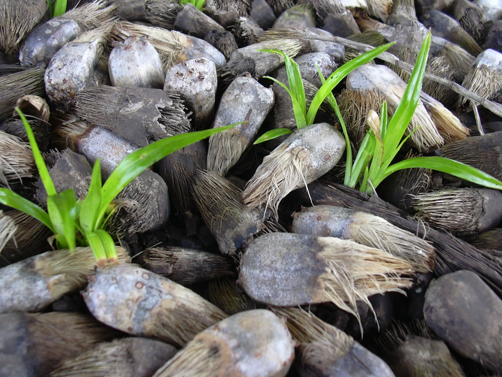 Pandanus tectorius (seelings). Location: Maui, Kipahulu